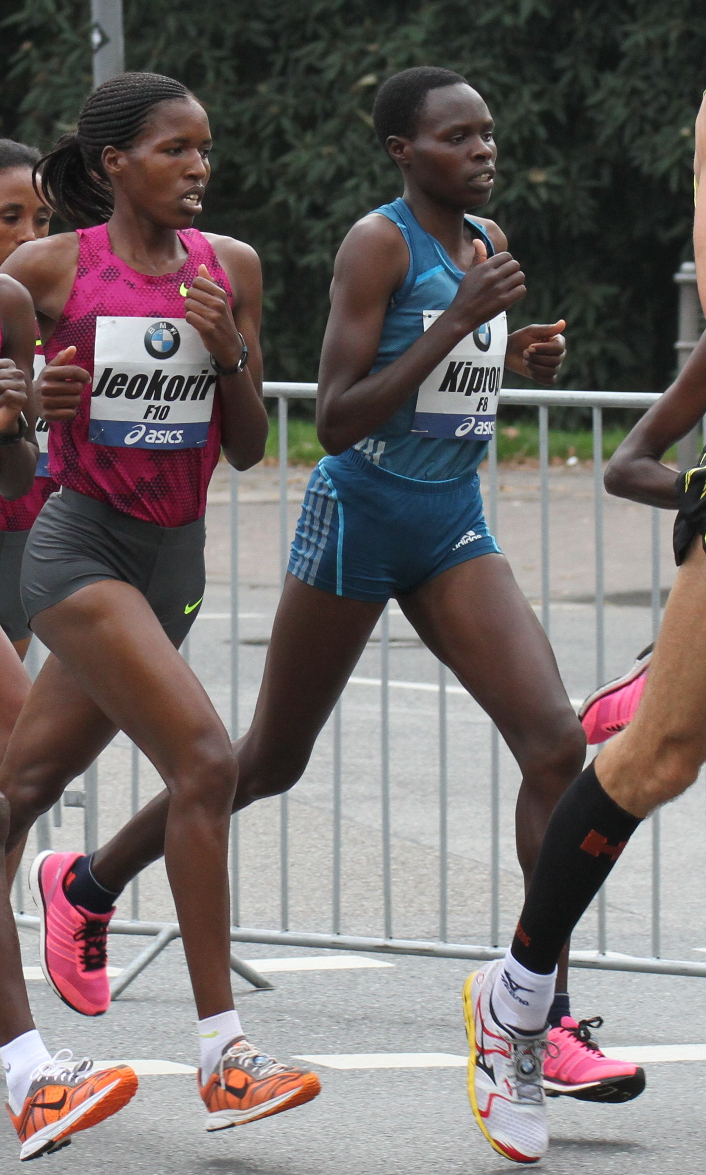 Helah Kiprop during the 2014 Frankfurt Marathon